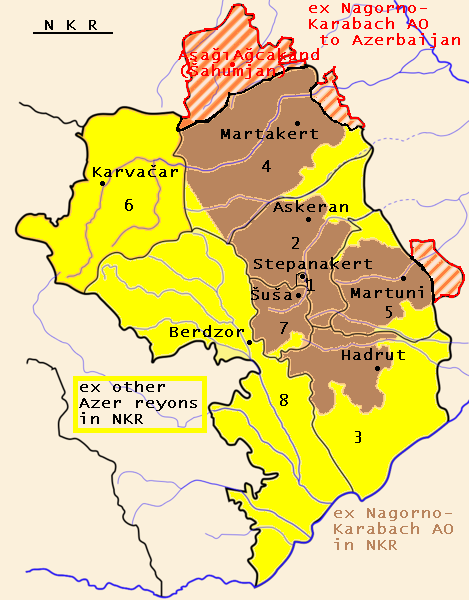 1 NKR